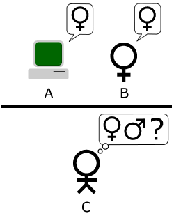 The Original Imitation Game Test, in which player A is replaced with a computer. The computer is tasked with the role of pretending to be a woman, while player B must to attempt to assist the interrogator, who must determine which is male and which is female.